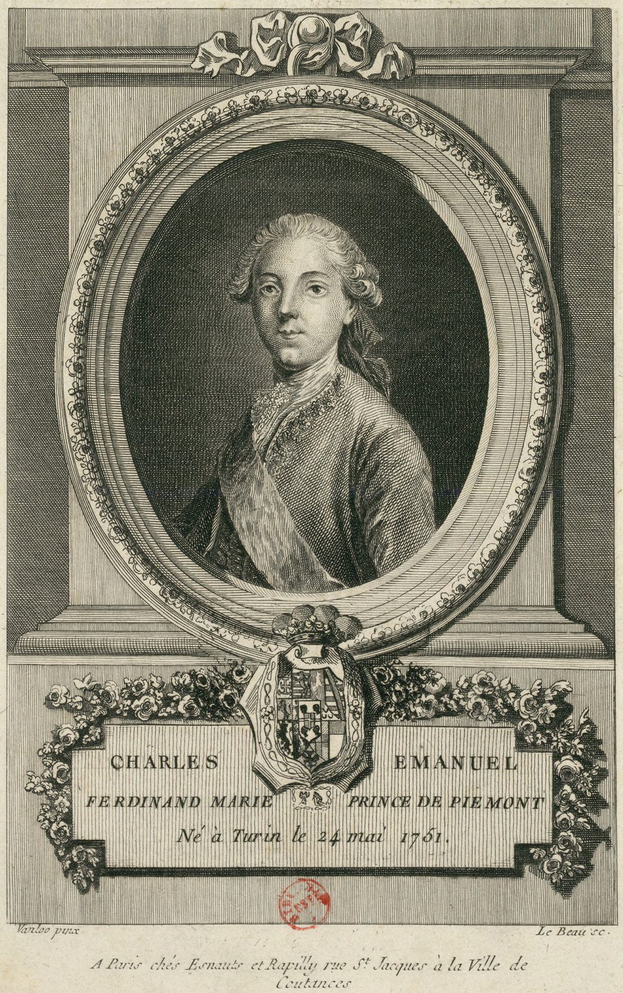 The Prince of Piedmont, later Charles Emmanuel IV of Sardinia (1751-1819)